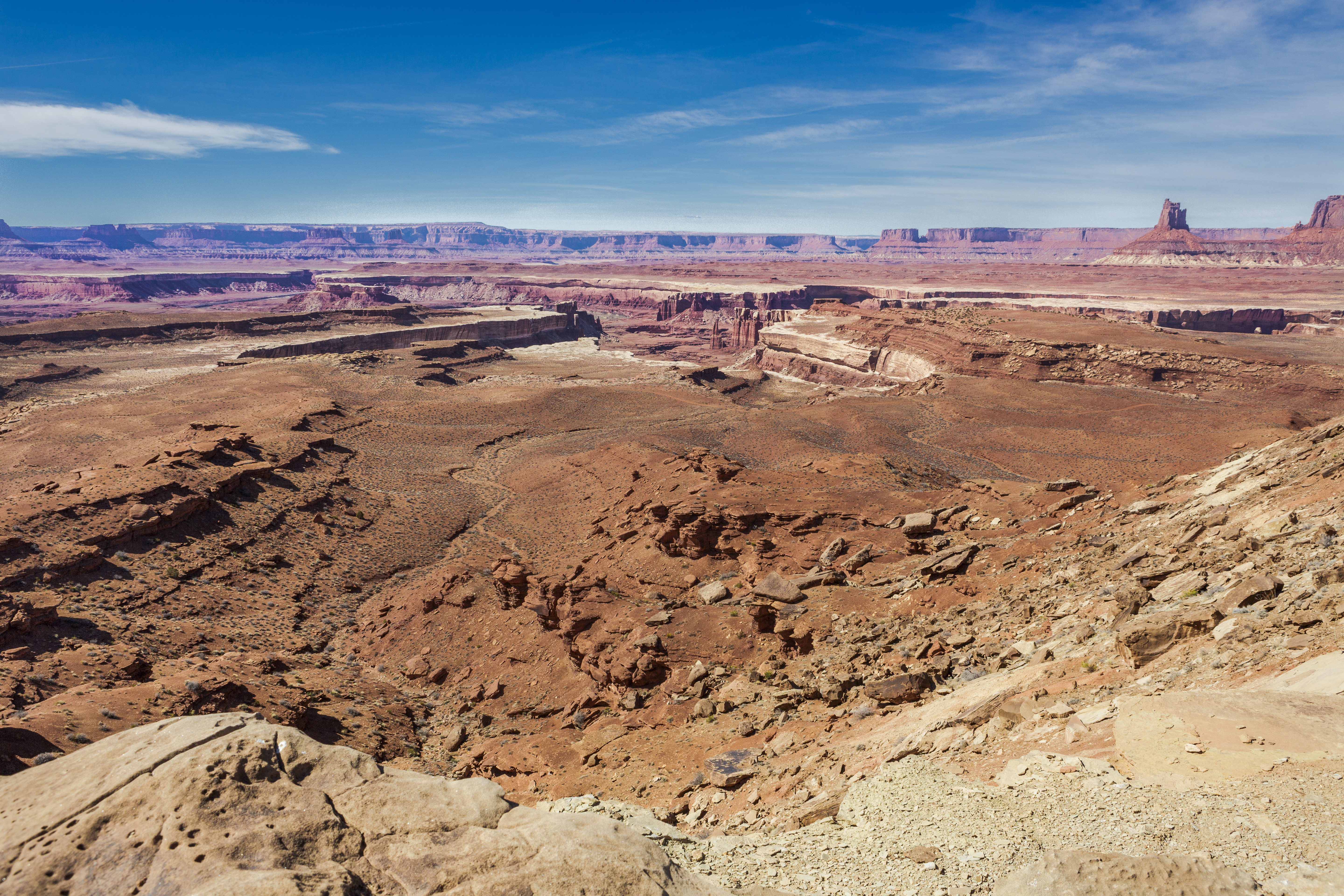 A view from Murphy Trail in Canyonlands National Park, Utah.